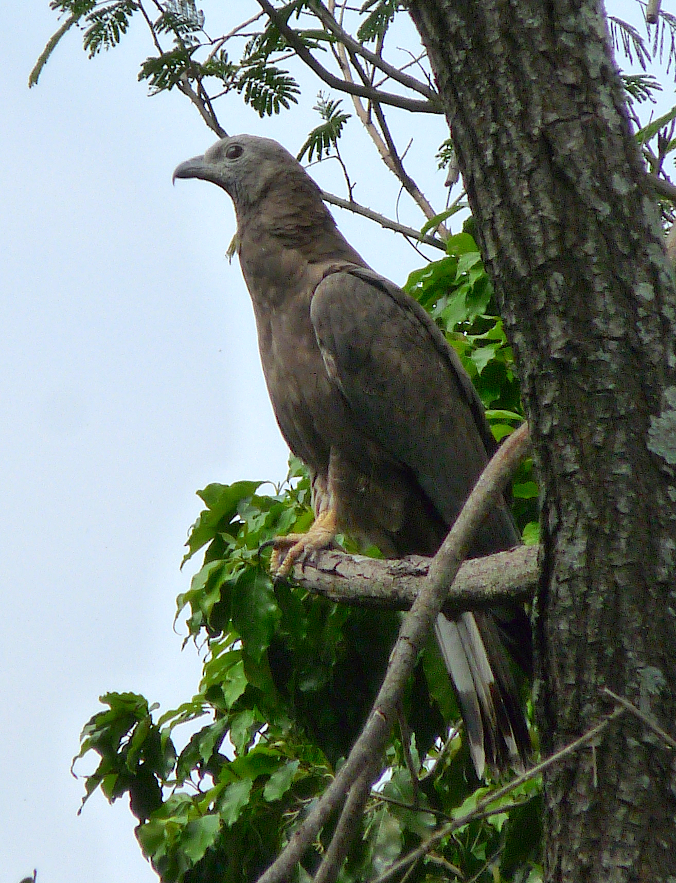 Crested Honey Buzzard also known as Oriental Honey Buzzard (Pernis ptilorhynchus)